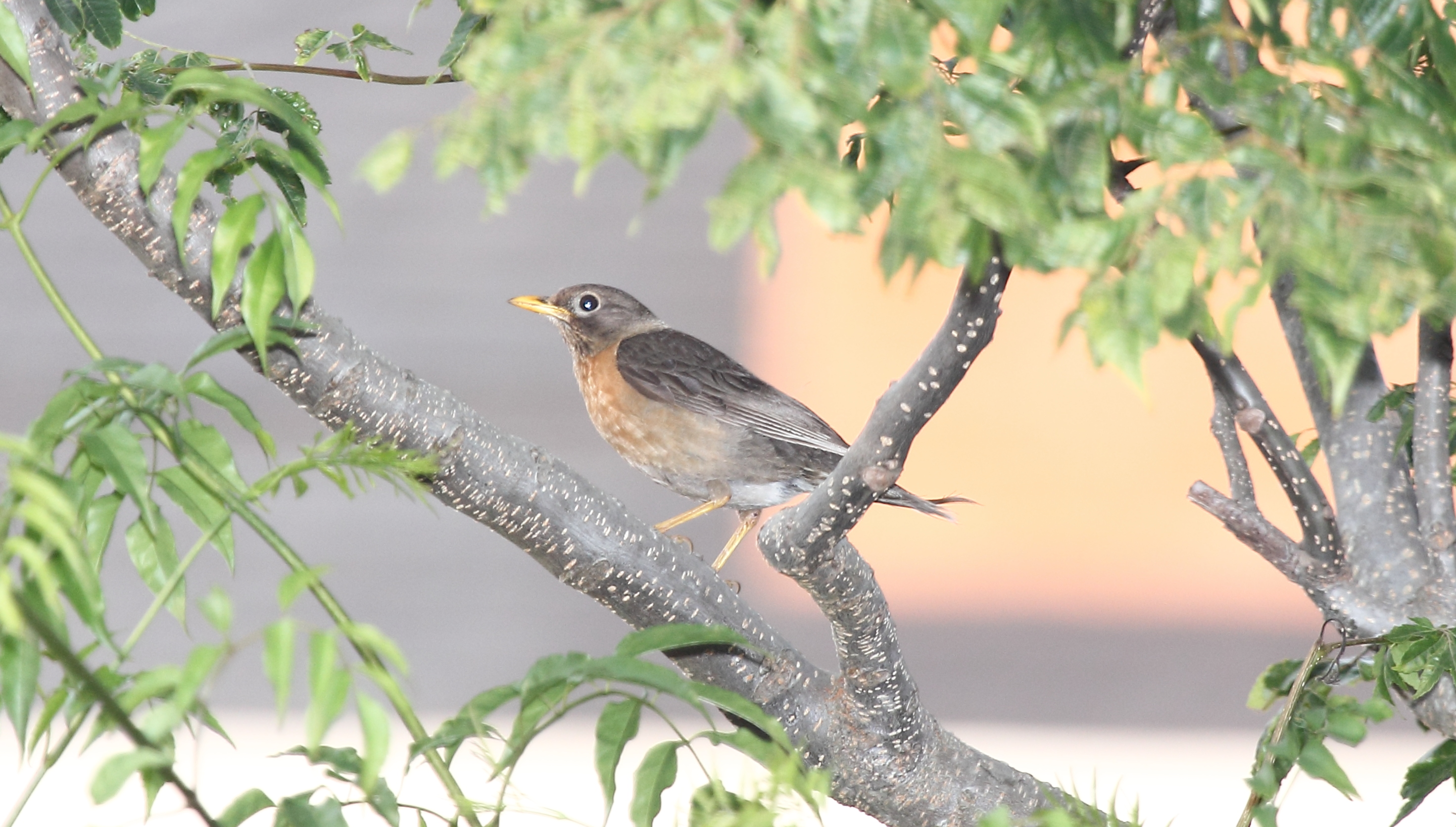 Rufous-collared Thrush Turdus rufitorques female, Guatemala